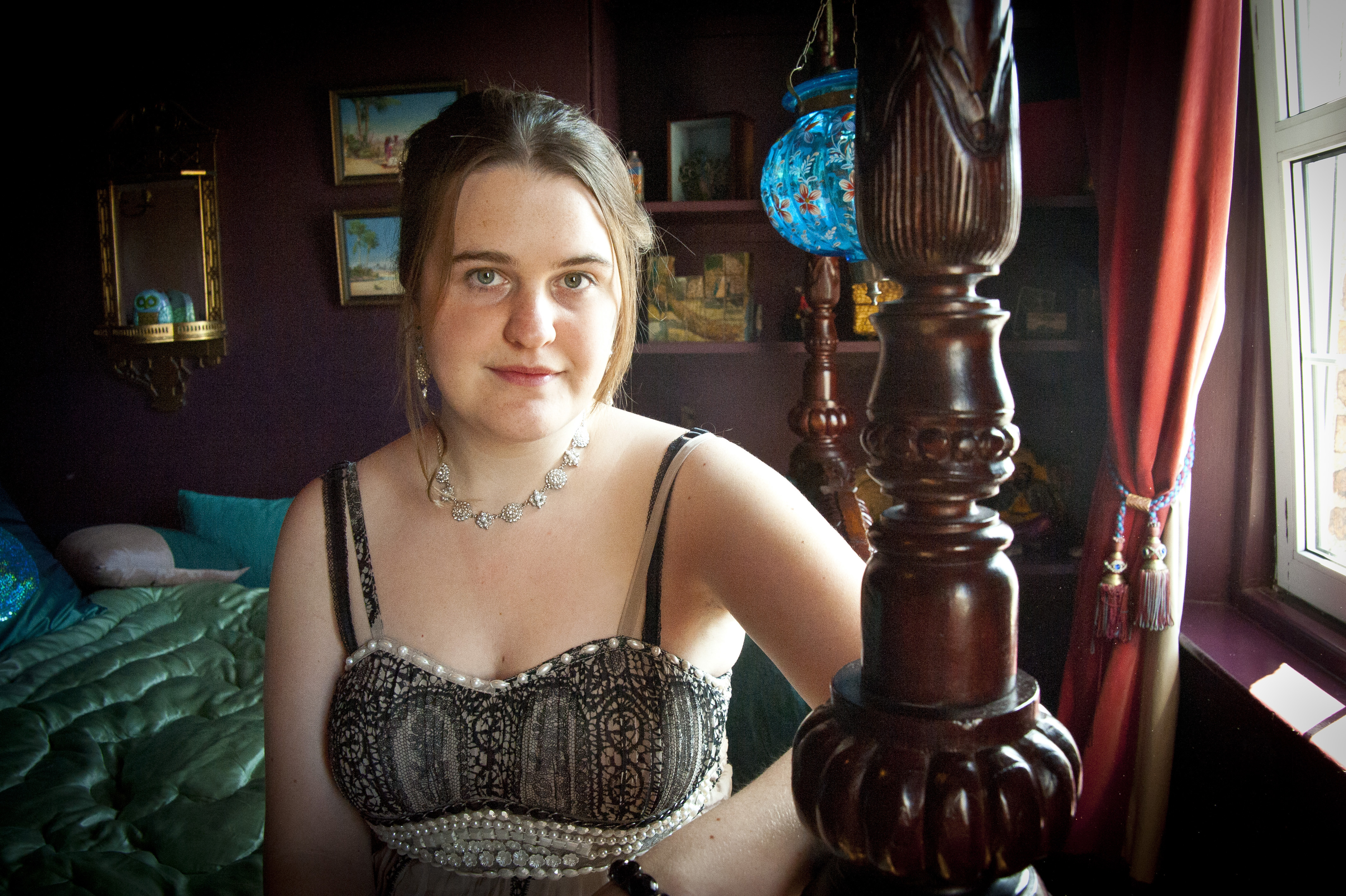 From a series of photographs, taken in La Rosa Hotel, Whitby, of singer for her forthcoming album.